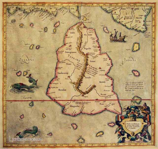 The 12th Asian Map (Tabula XII Asiae) from Ptolemy's Geography, depicting Taprobane, a greatly swollen form of the island of Sri Lanka.